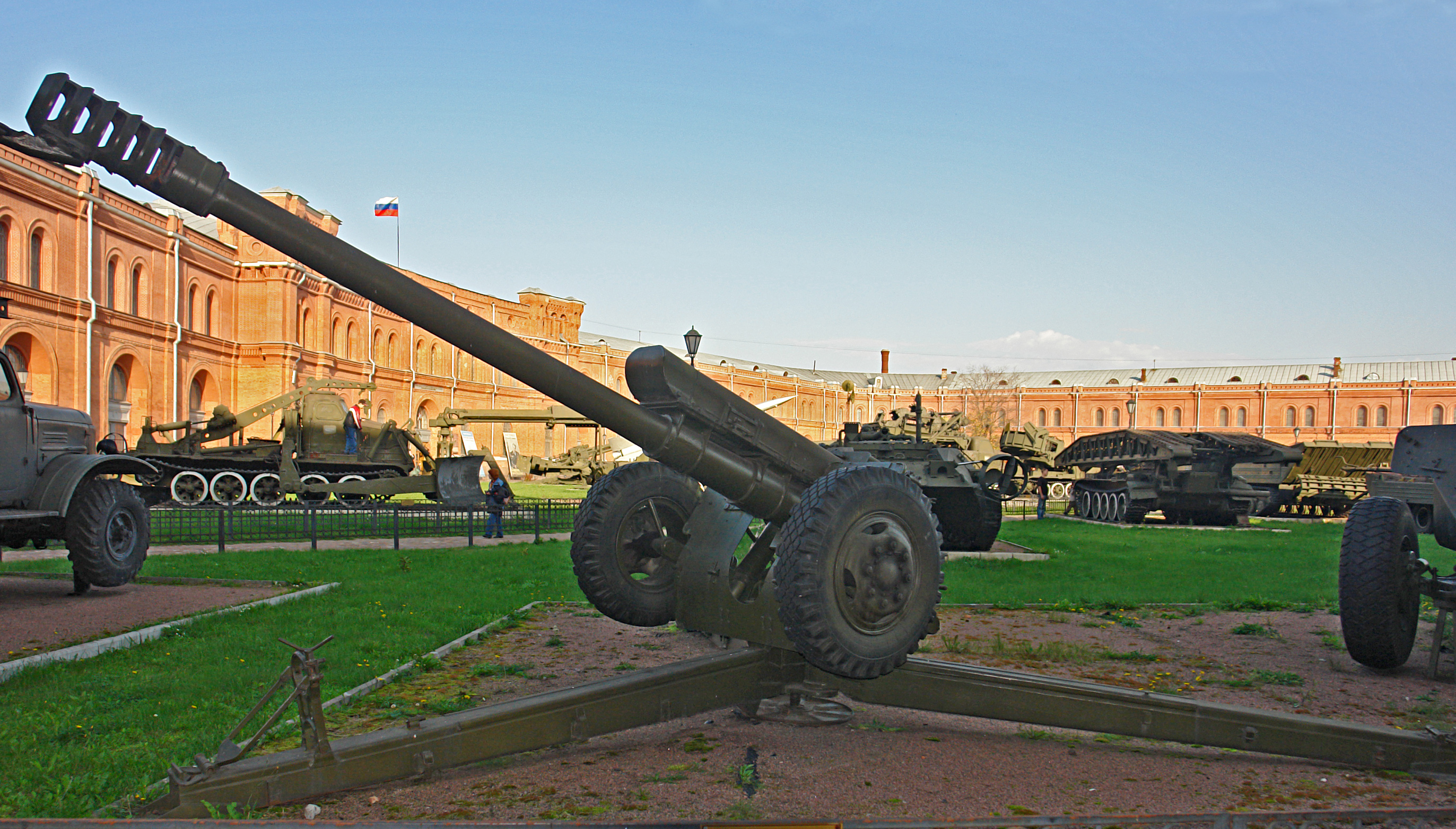 122mm howitzer D-30 (2A-18) Chief Designer F. F. Petrov (1960) Maximum range: 15300 meters Rate of fire: 6 - 8 rounds per minute Mass: 3200 kg Shell mass: 22 kg Crew: 6